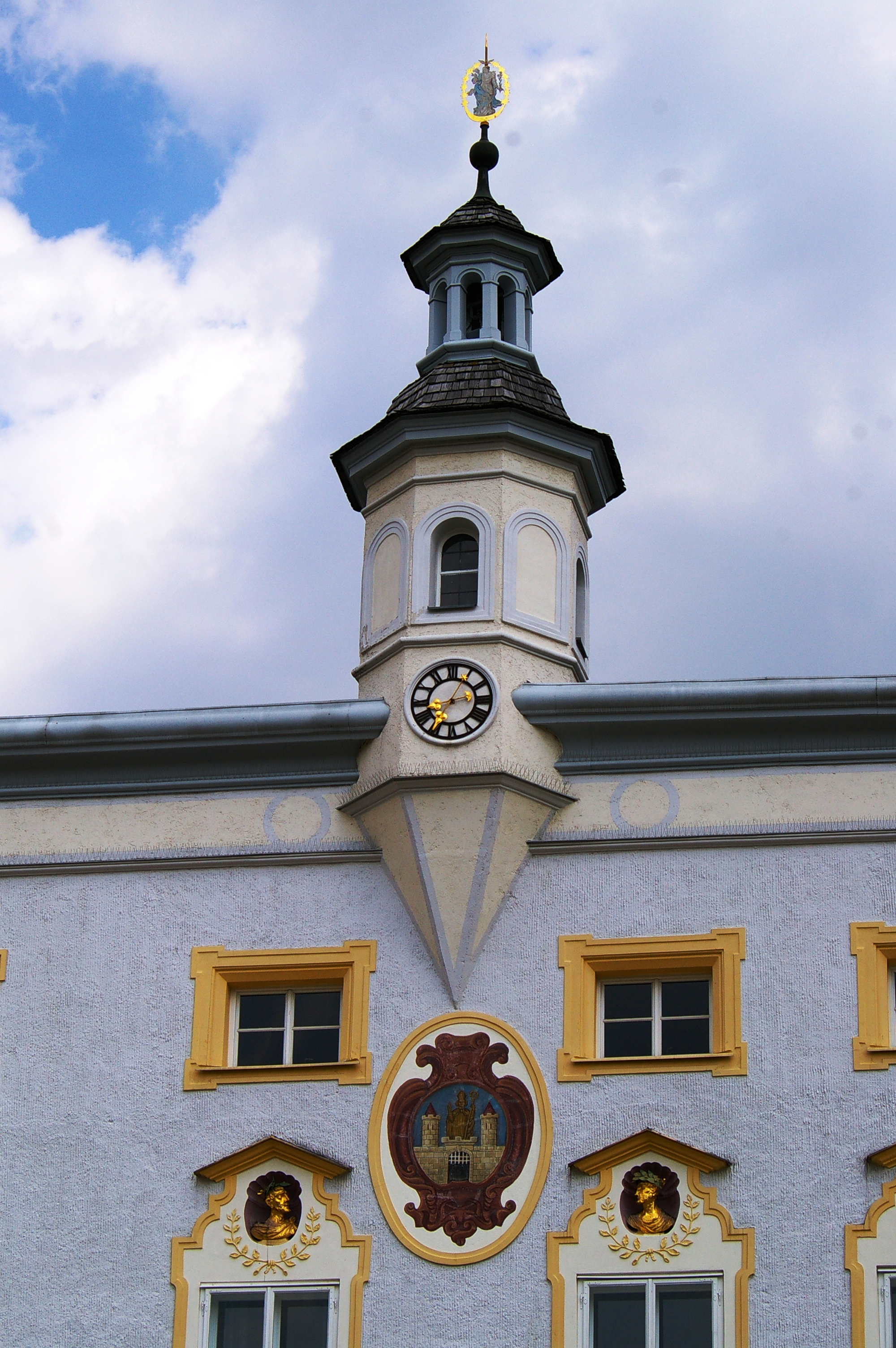 town hall city of Tittmoning Bavaria